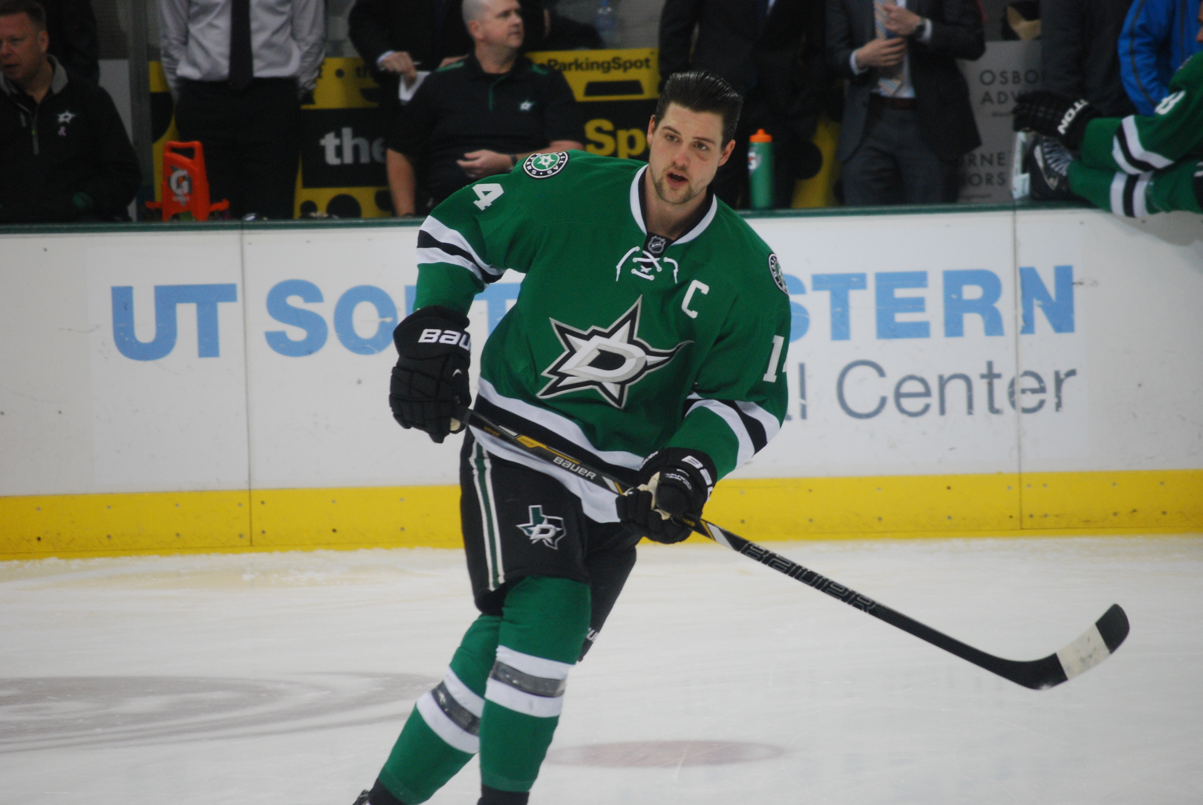 Jamie Benn 2/27/14